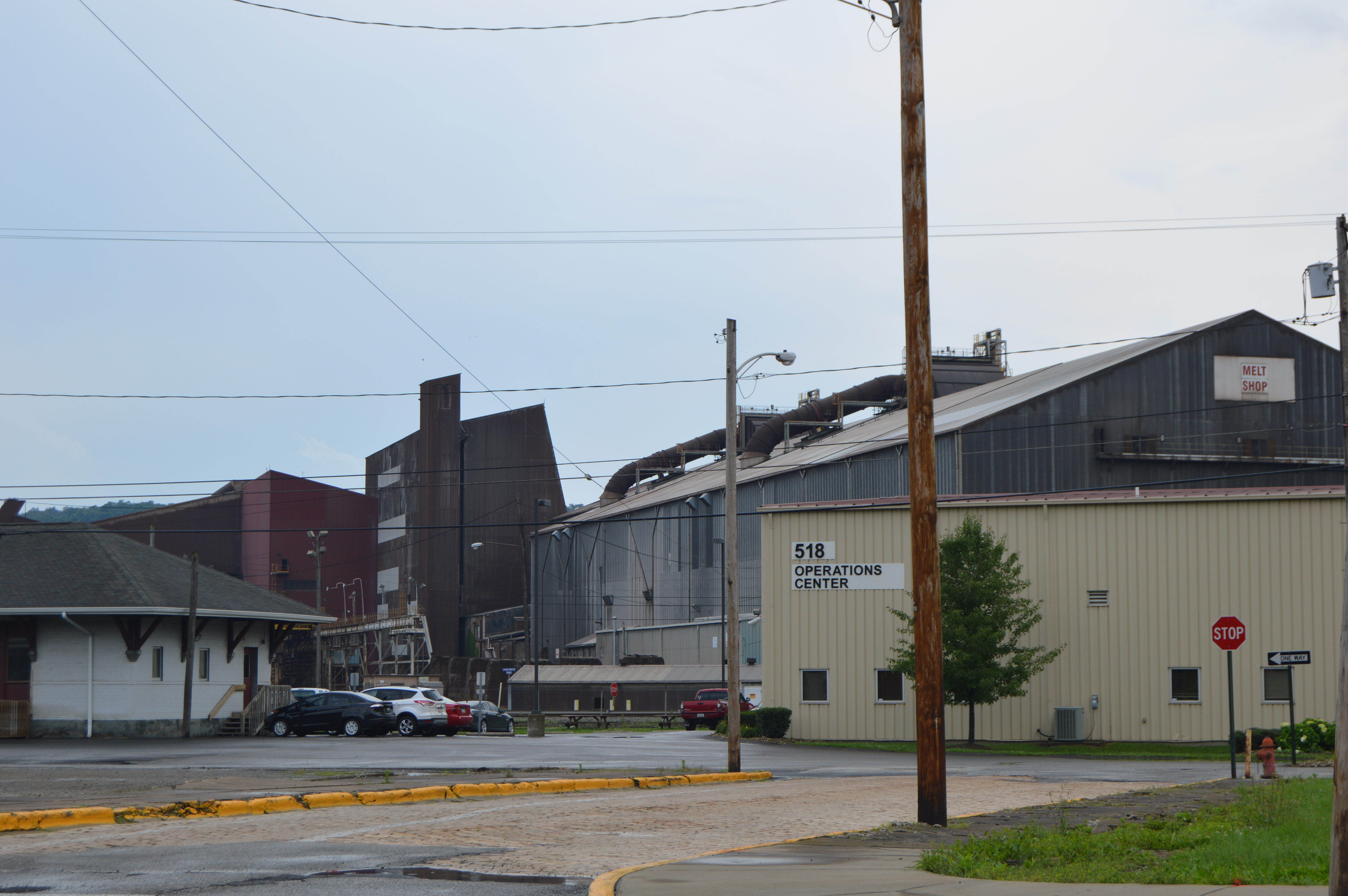 Looking south from the junction of Pennsylvania Avenue (Pennsylvania Route 68) and Fifth Street in Midland, Pennsylvania, United States. The complex in the distance is part of the borough's Allegheny Technologies steel mill, a former Crucible Industries mill that was for a short while operated by J&L Steel before its demise.